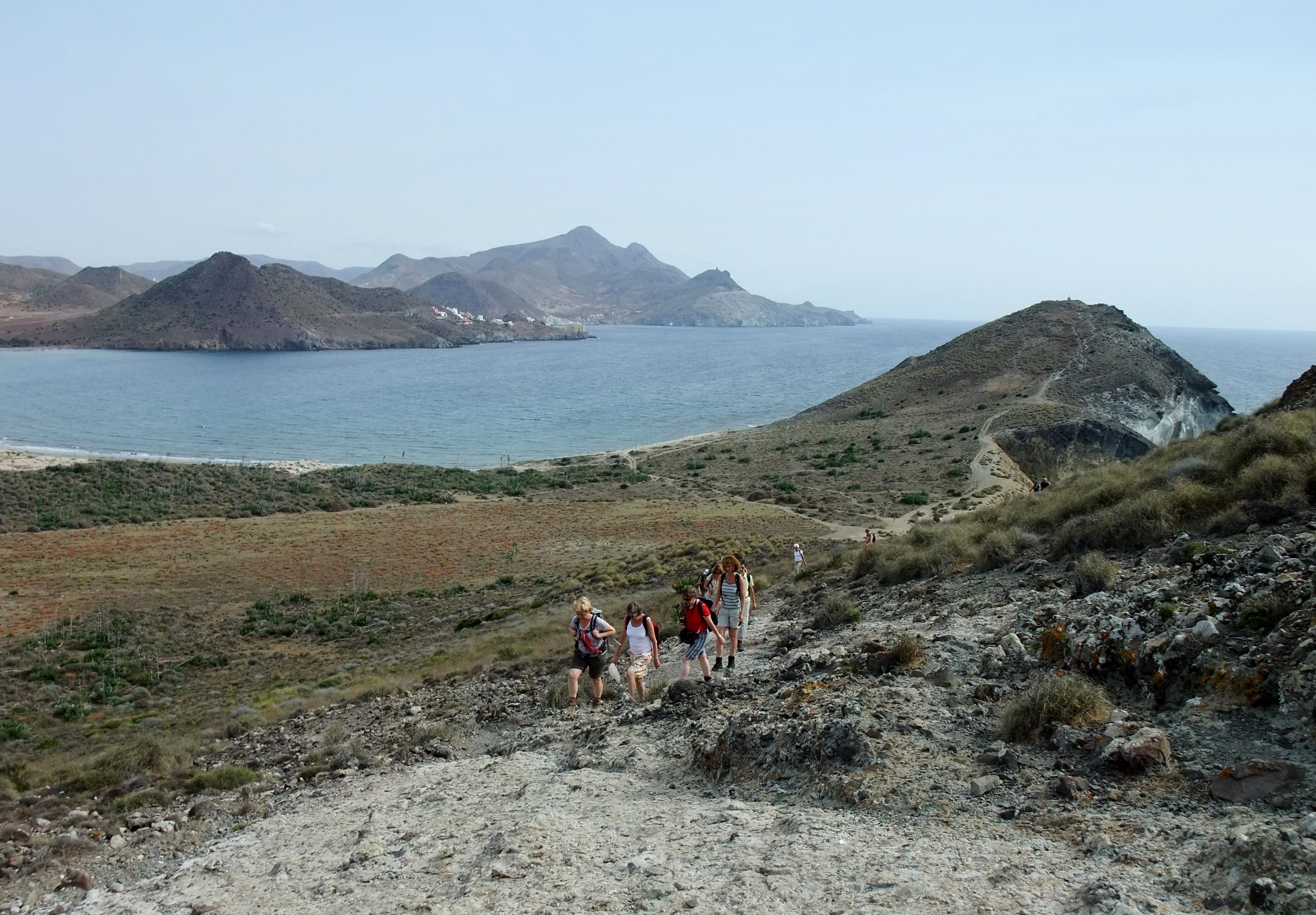 Shore near Monsul, part of the Natural Park Cabo de Gata-Nijar, Province of Almería, Spain